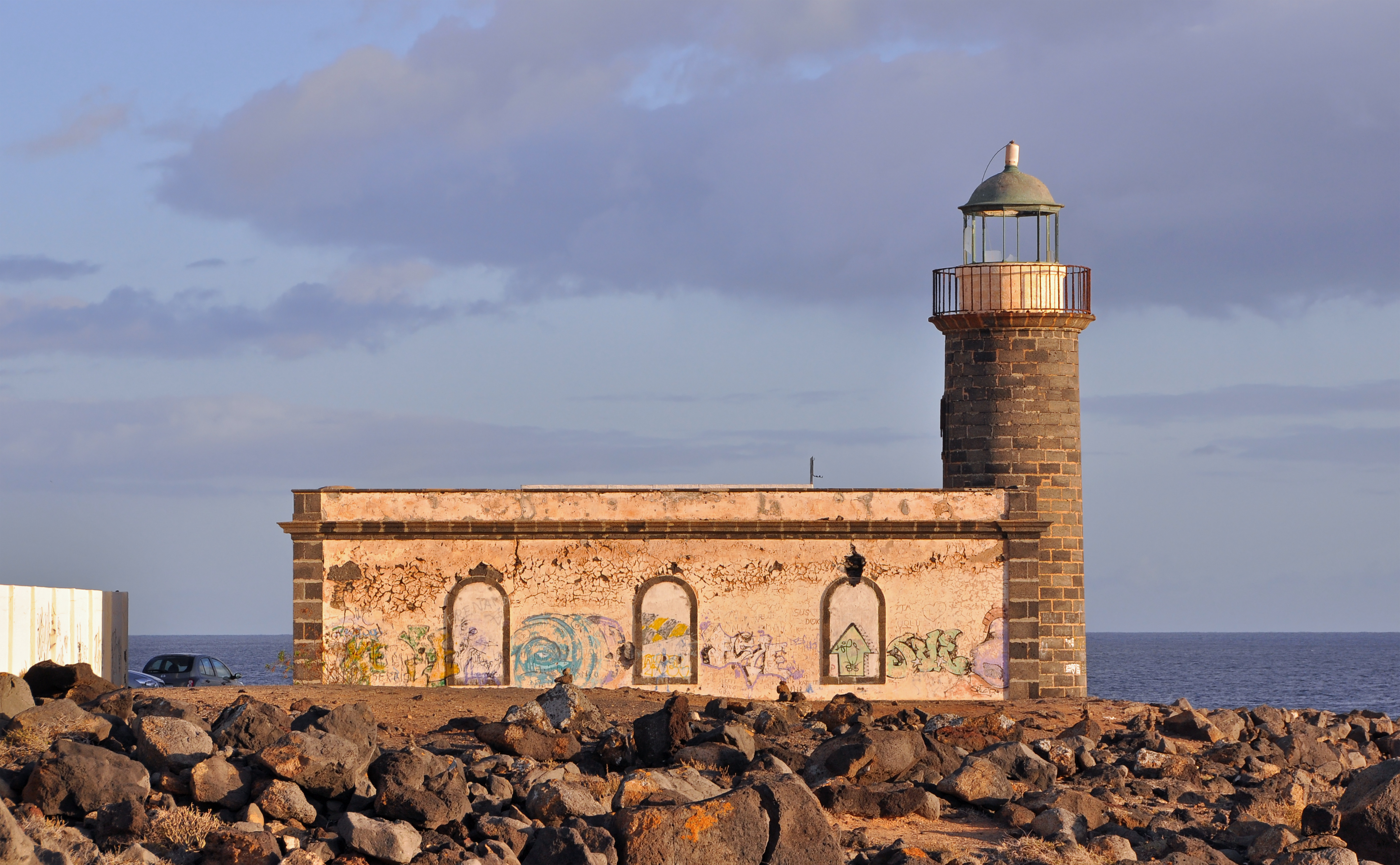 Playa Blanca (Yaiza municipality, Lanzarote, Canary Islands): the old lighthouse of Punta Pechiguera (in use from 1866 till 1988)